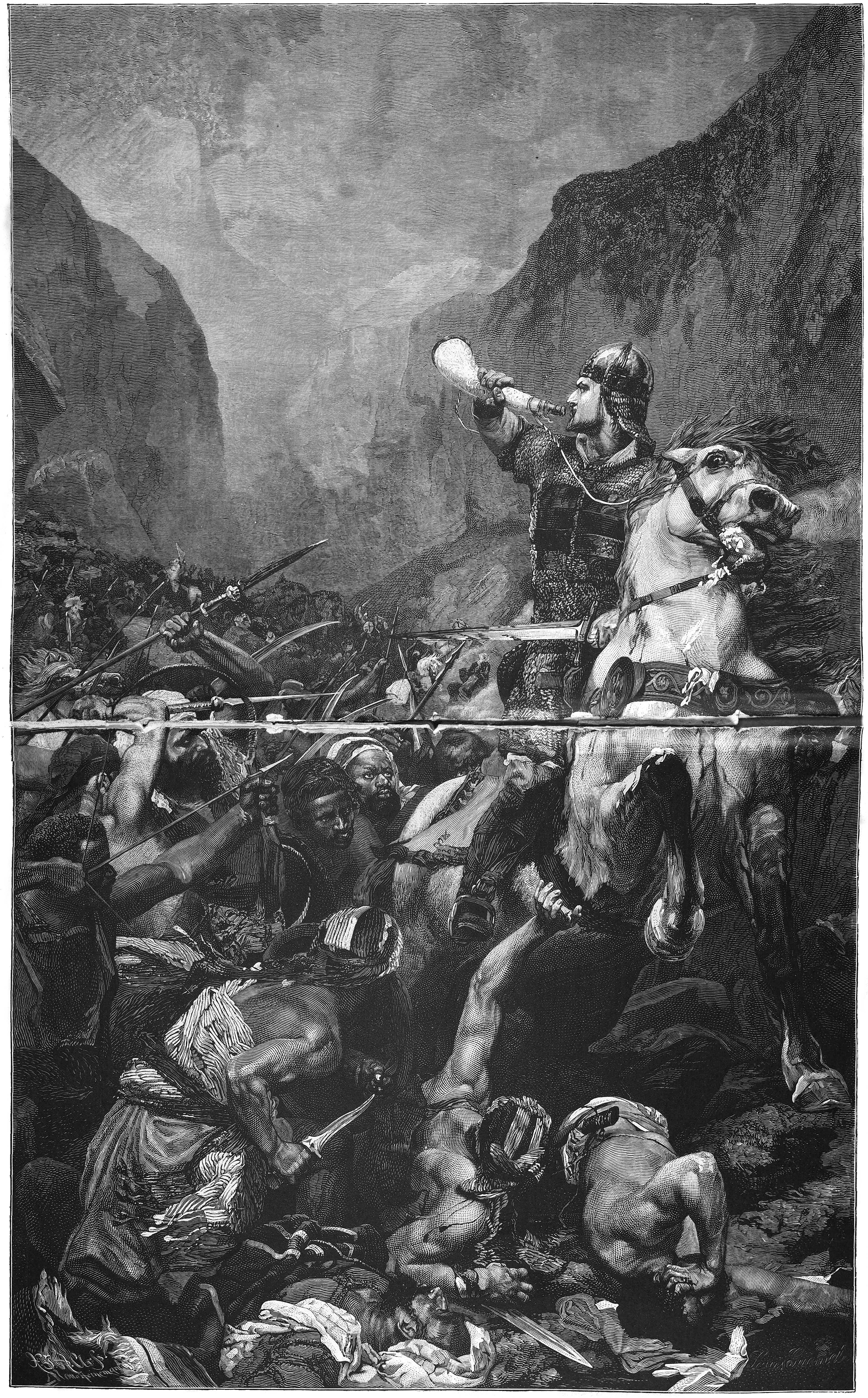 caption: "Roland in der Schlacht zu Roncesvalles. Nach dem Oelgemälde von Louis Guesnet. Photographie im Verlag von E. Lecadre u. Comp., Paris, 56 Rue de Larochefoucauld."